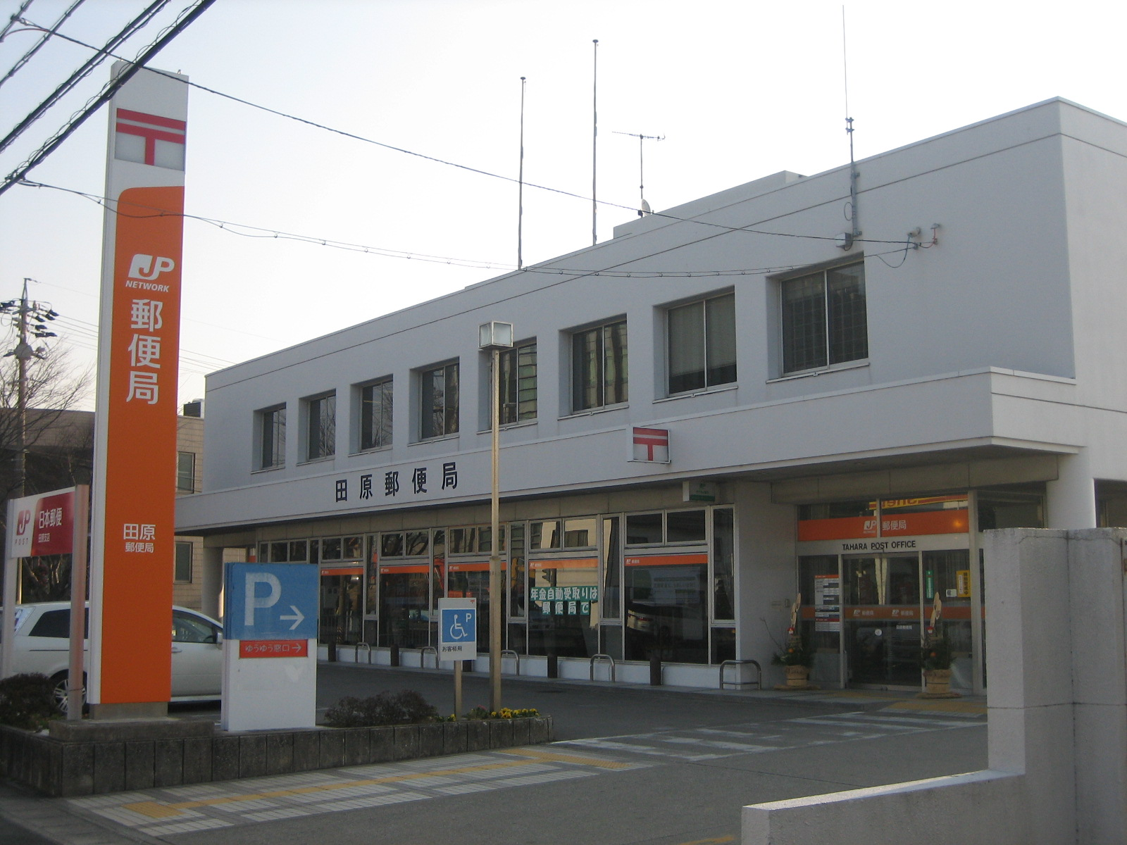 Tahara post office in Aichi, Japan